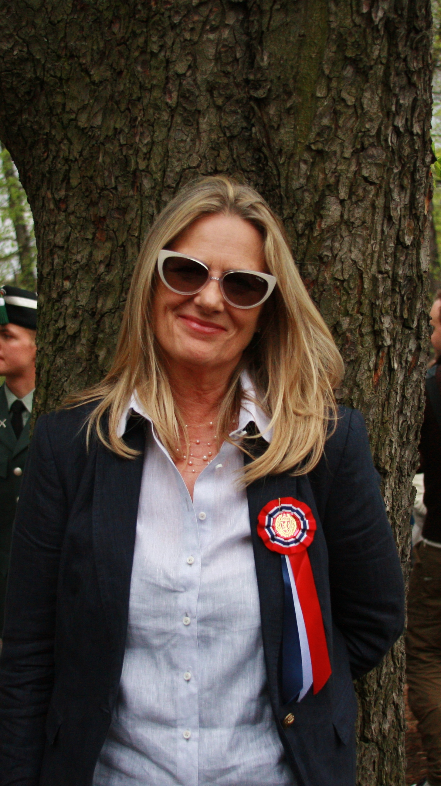 The norwegian film director Unni Straume celebrating, as you can see from the cockade, the Norwegian Constitution Day on the 17 of may in 2013. The artist's picture was taken in Oslo in the park, located in front of the Castle, slottsparken where the parade arrives.